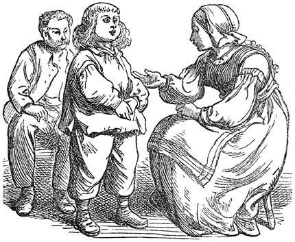 From 'Andersens Sproken en vertellingen' by Hans Christian Andersen, Titia van der Tuuk (ed.) and Simon Jacob Andriessen (trans.). Gebroeders E. & M. Cohen, Nijmegen - Arnhem. Illustrated by Alfred Walter Bayes (1832-1909) and engraved by the Dalziel Brothers (Edward Daziel, 1817-1905; George Daziel, 1815-1902).